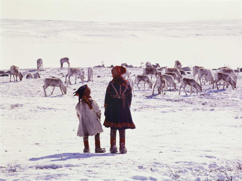 Foto av samer og reinsdyr på snødekt vidde.